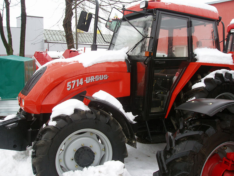 Ursus 5714 tractor